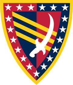 Shoulder sleeve insignia for US Army Unit